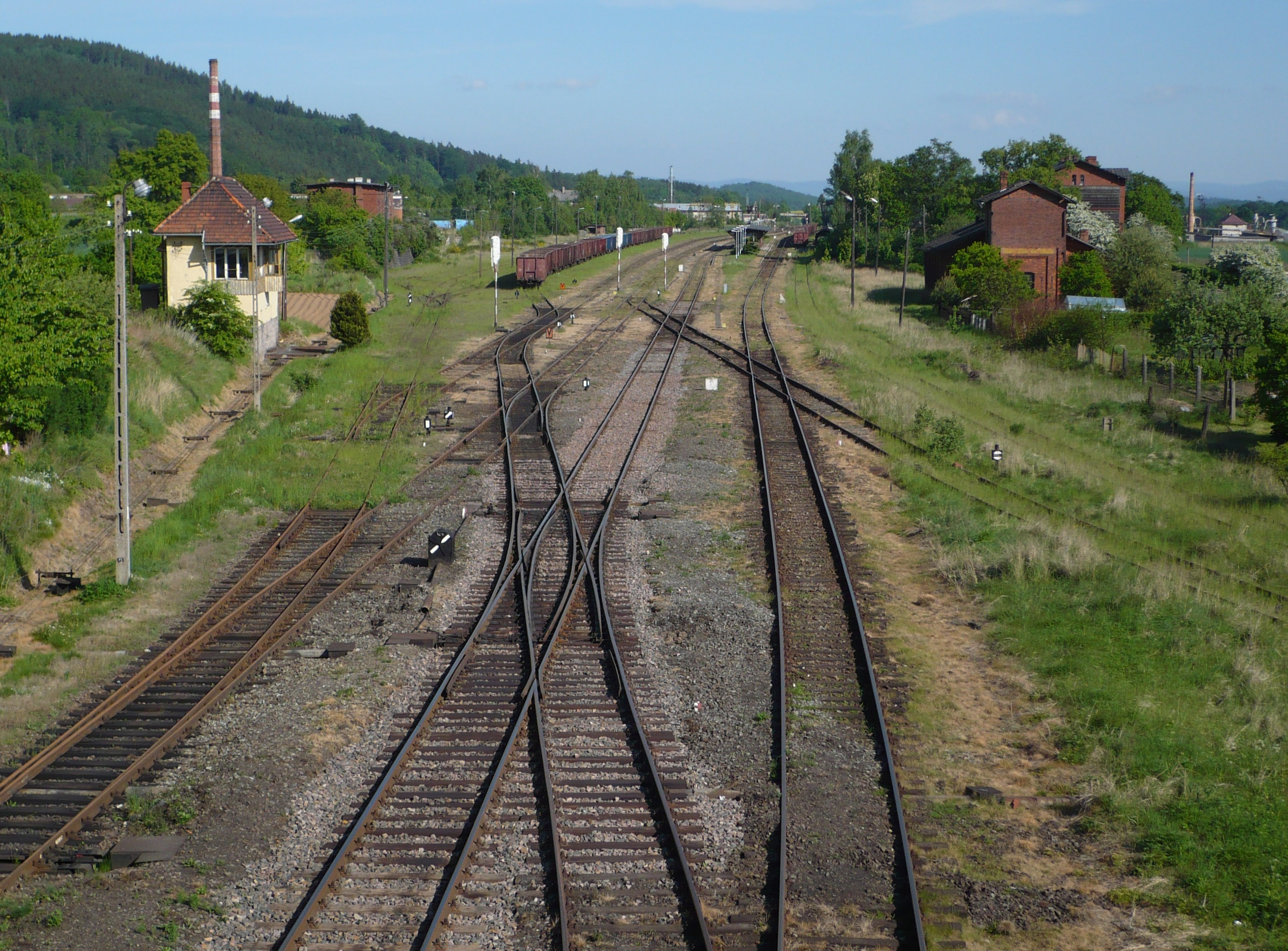 Train station Ścinawka Średnia from the road bridge, abolished branch line to Broumov on the right. At the far end of the station there is a bridge of former Owl Mountains Railway